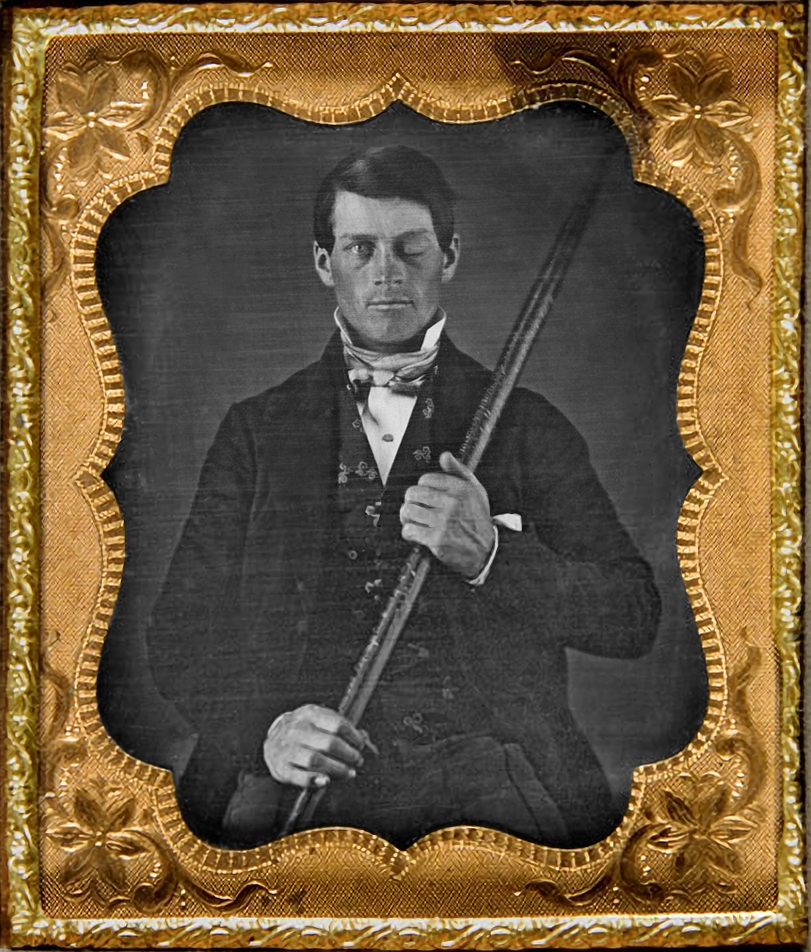 Photograph of cased-daguerreotype studio portrait of brain-injury survivor Phineas P. Gage (1823–1860) shown holding the tamping iron which injured him. Includes view of original embossed brass mat. From the collection of Jack and Beverly Wilgus. Like most daguerreotypes, the image seen in this artifact is laterally (left-right) reversed; therefore a second, compensating reversal has been applied to produce this image, so as to show Gage as he appeared in life. That this shows Gage correctly is confirmed by contemporaneous medical reports describing his injuries, as well as from the injuries visible in Gage's skull and life mask, still preserved. Digitally enhanced and manually retouched (see notes on talk page).